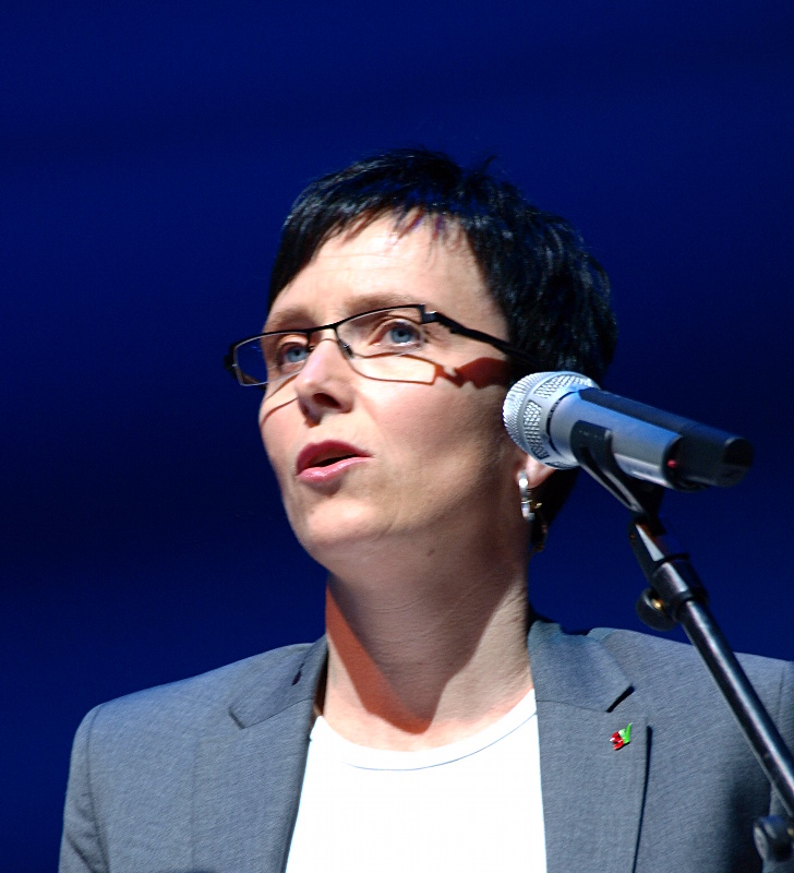 Heidi Grande Røys at the Norwegian GoOpen conference 2009